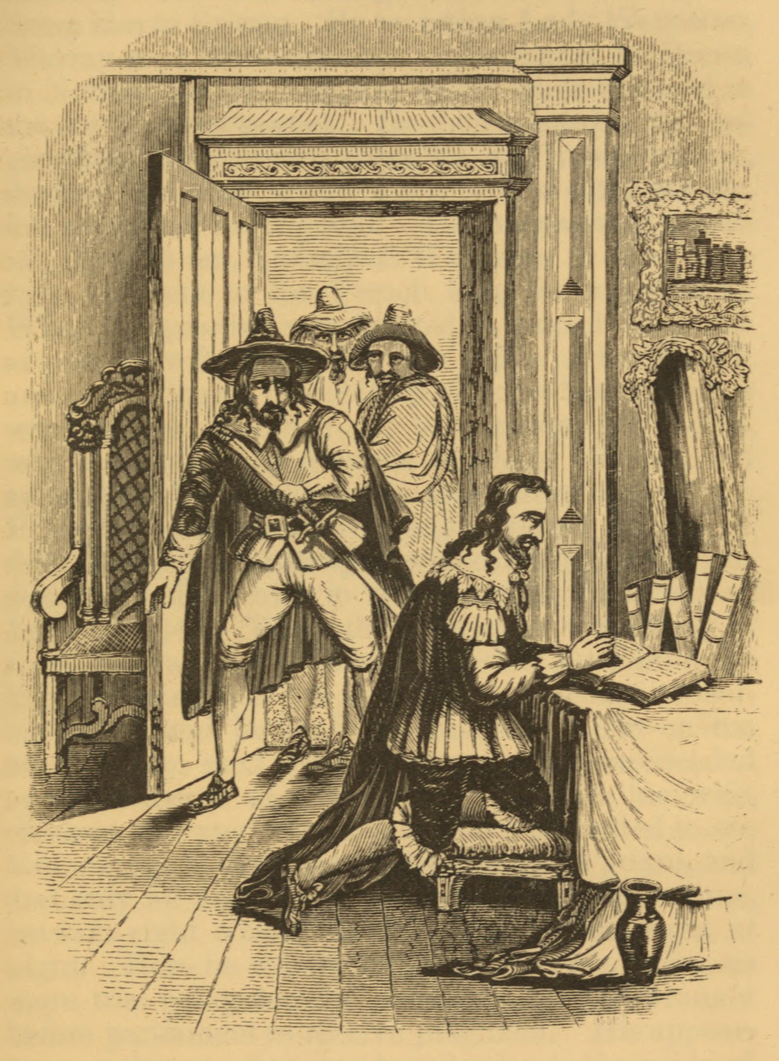 Archibald Johnston, Lord Wariston, captured from Aikman vol 1